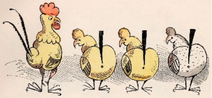 Tinted illustration from Wilhelm Busch's Max und Moritz